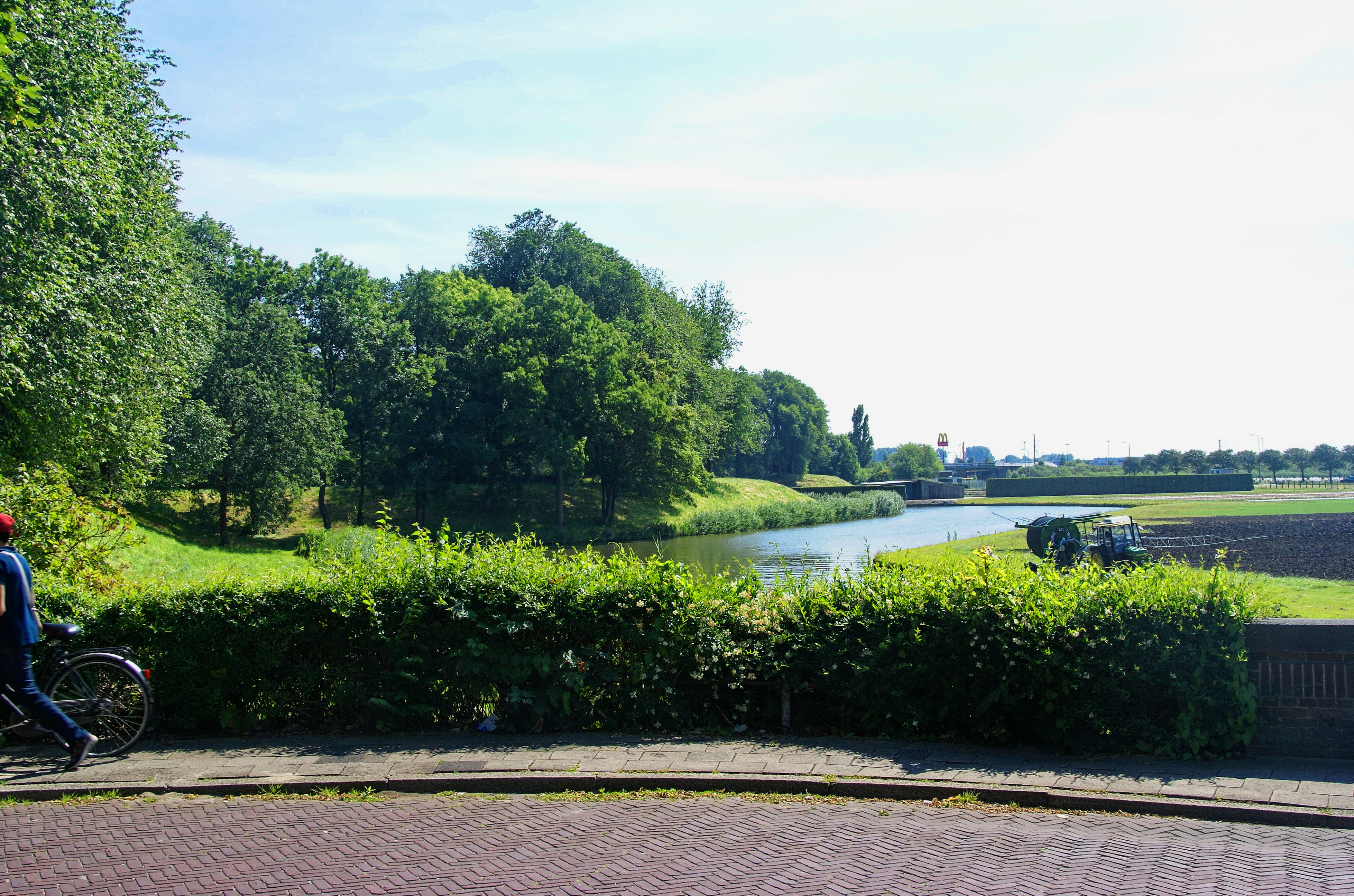 Enkhuizen - Westeinde - View SSW